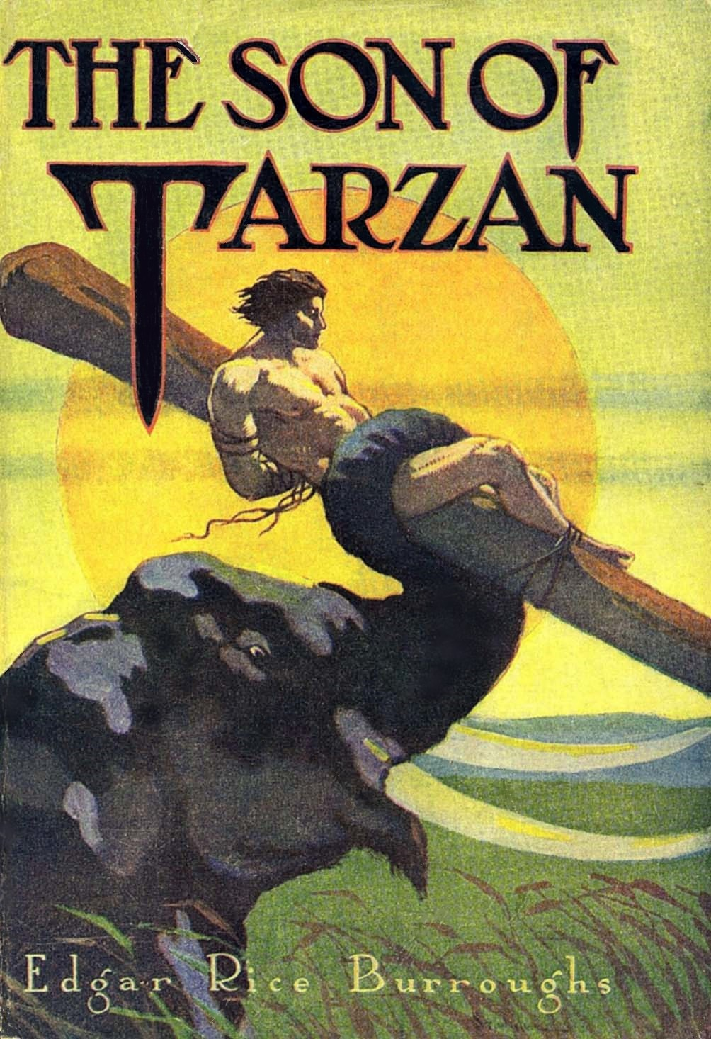 Dust-jacket illutration for The Son of Tarzan by Edgar Rice Burroughs for illustration of an article